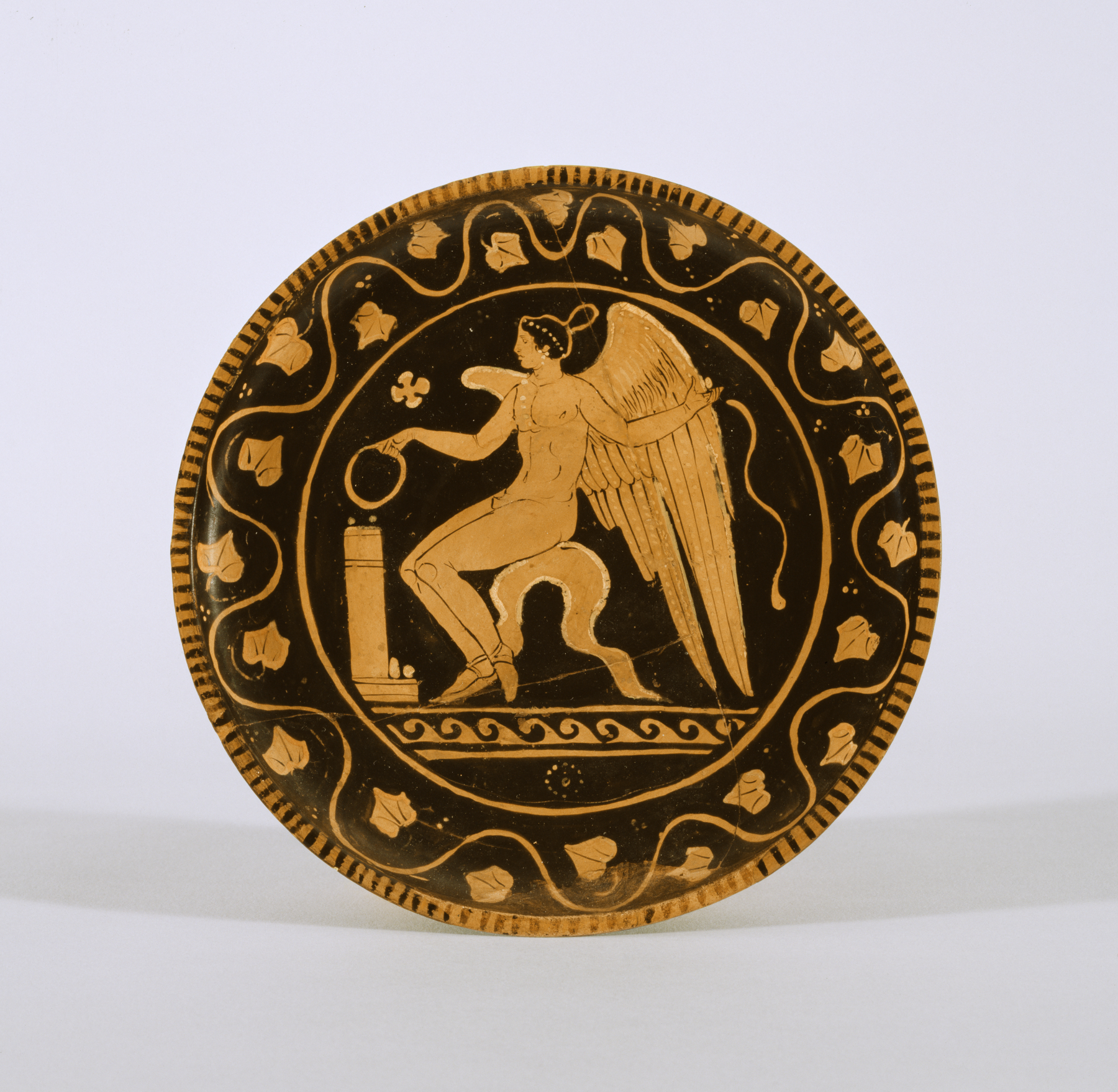 Female heads and Eros figures are common features on the vases attributed to the Ascoli Satriano Painter. His real name is unknown, and he has been named after a northern Apulian town, where many of his vases have been found. Eros is depicted as a winged youth about to place a wreath as an offering on the "cippus" (pillar) in front of him.